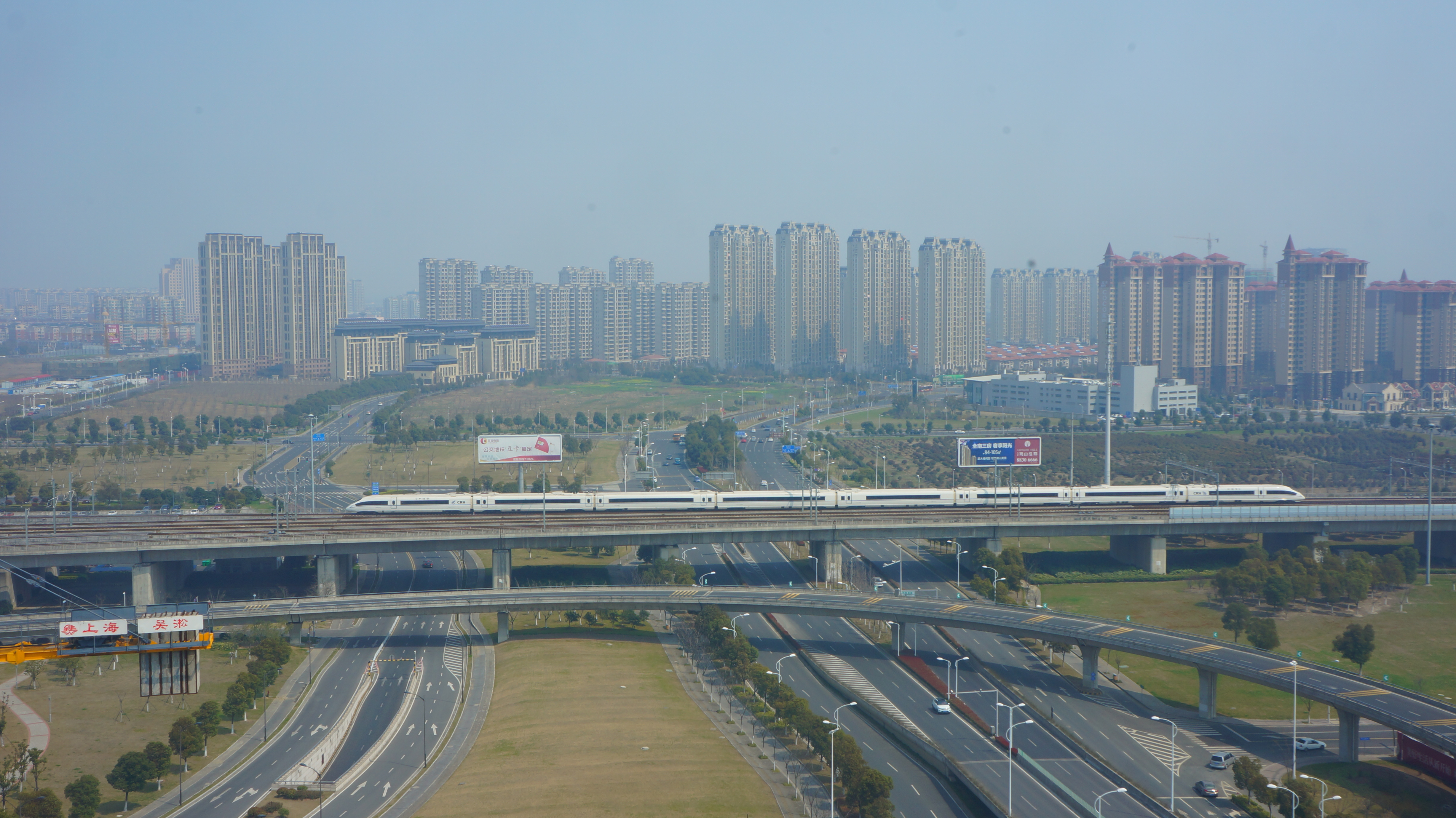 201603 A CRH380B leave from Wuxidong Station